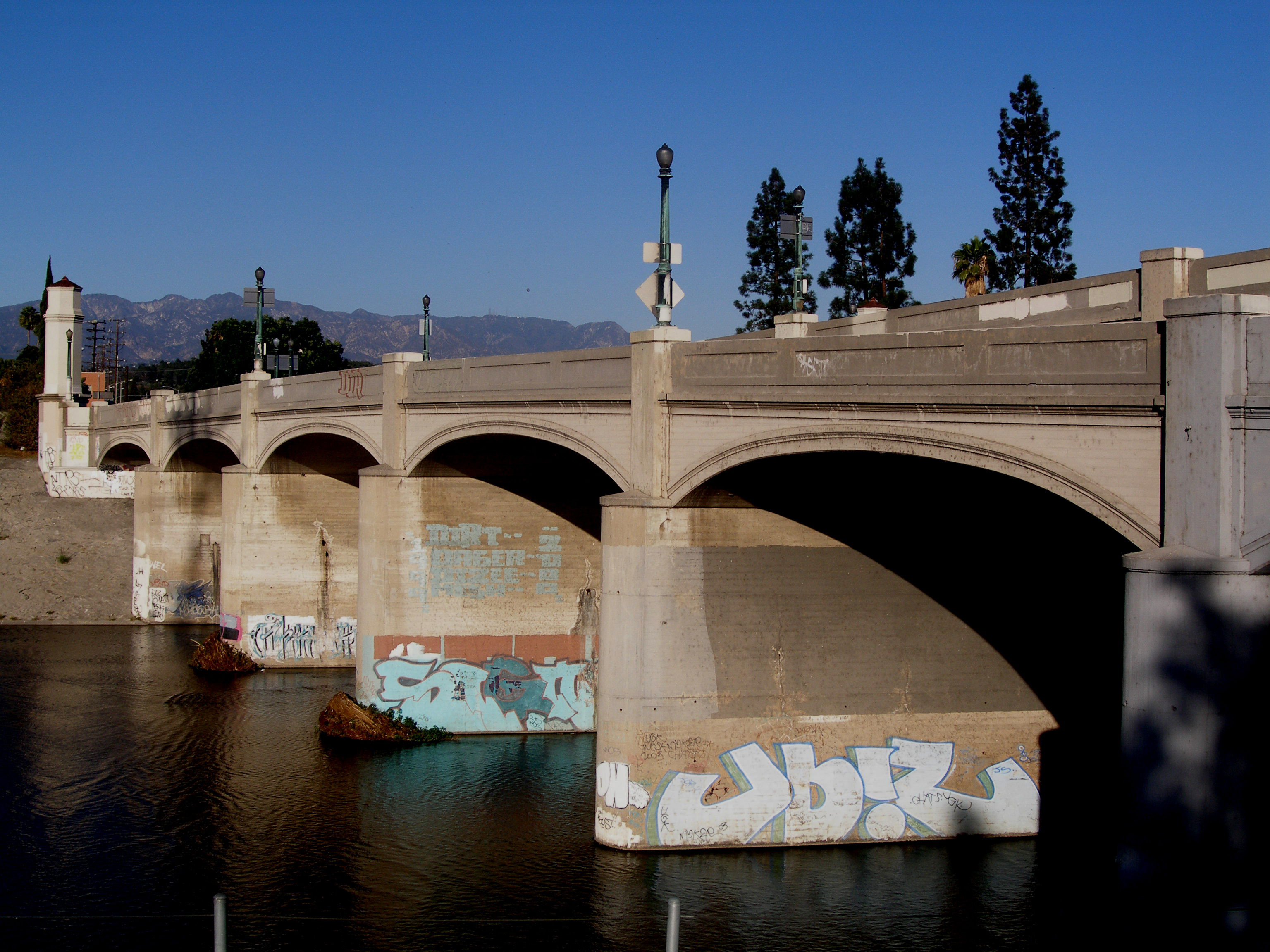 A concrete arch bridge completed in 1927. Los Angeles Historic-Cultural Monument #164.